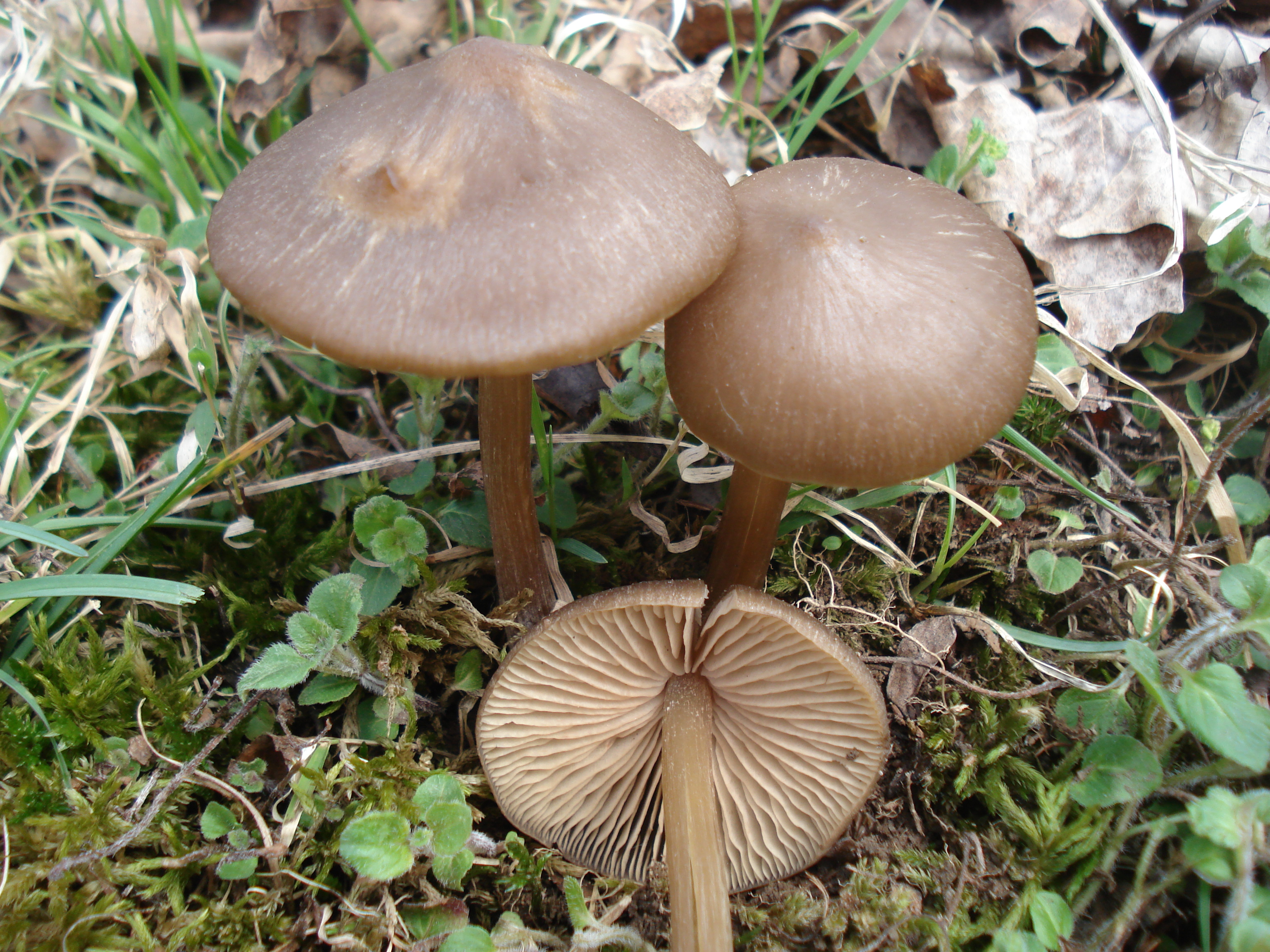 Entoloma vernum S. Lundell Location: Luzerne Co., Pennsylvania, USA For more information about this, see the observation page at Mushroom Observer.